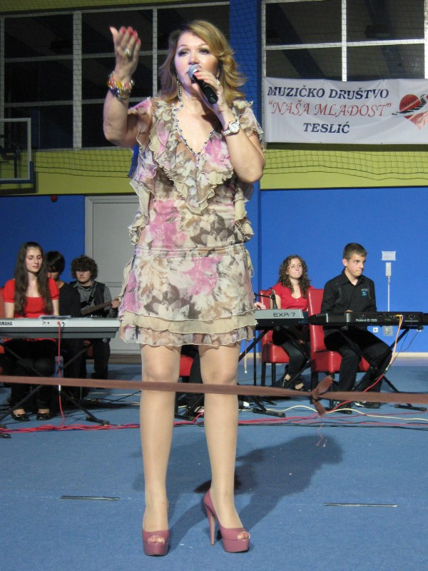 Neda Ukraden, Serbian singer, in Teslic, in 2011.